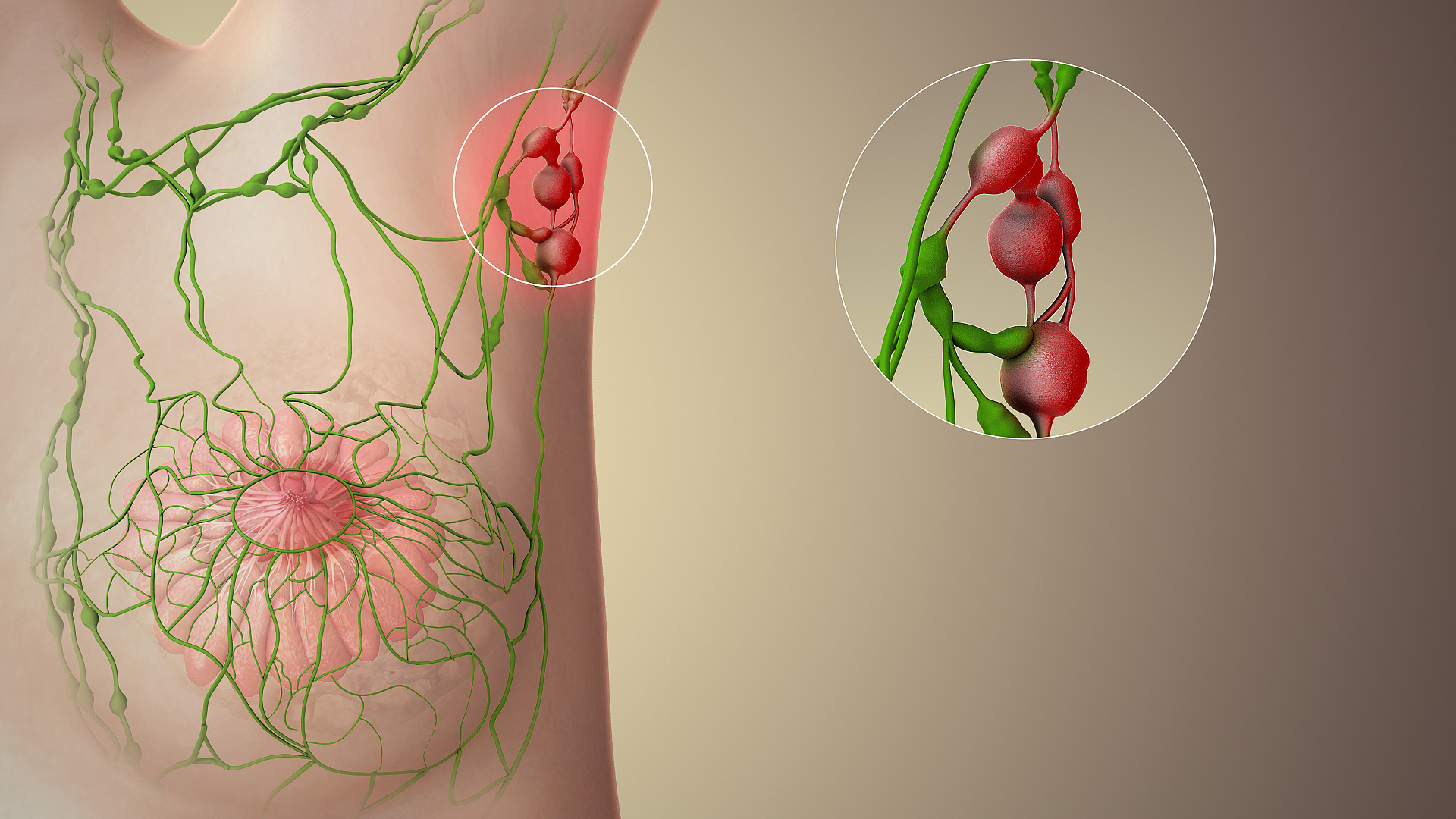 Lymph nodes may become enlarged due to an infection, injury and cancer.